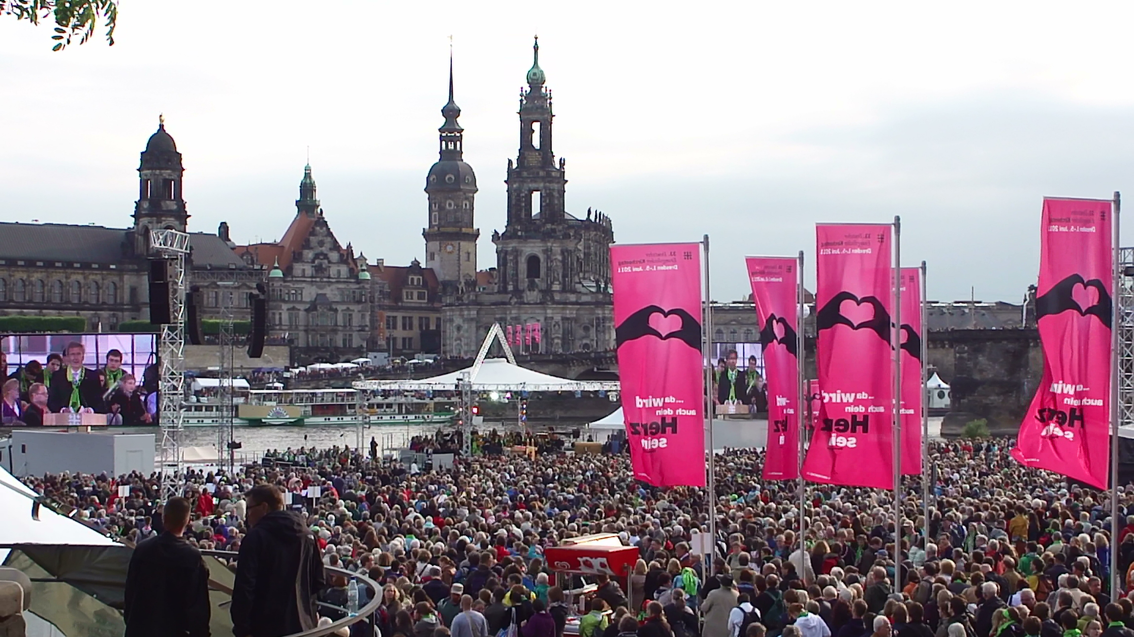 The 33rd church congress in Dresden.